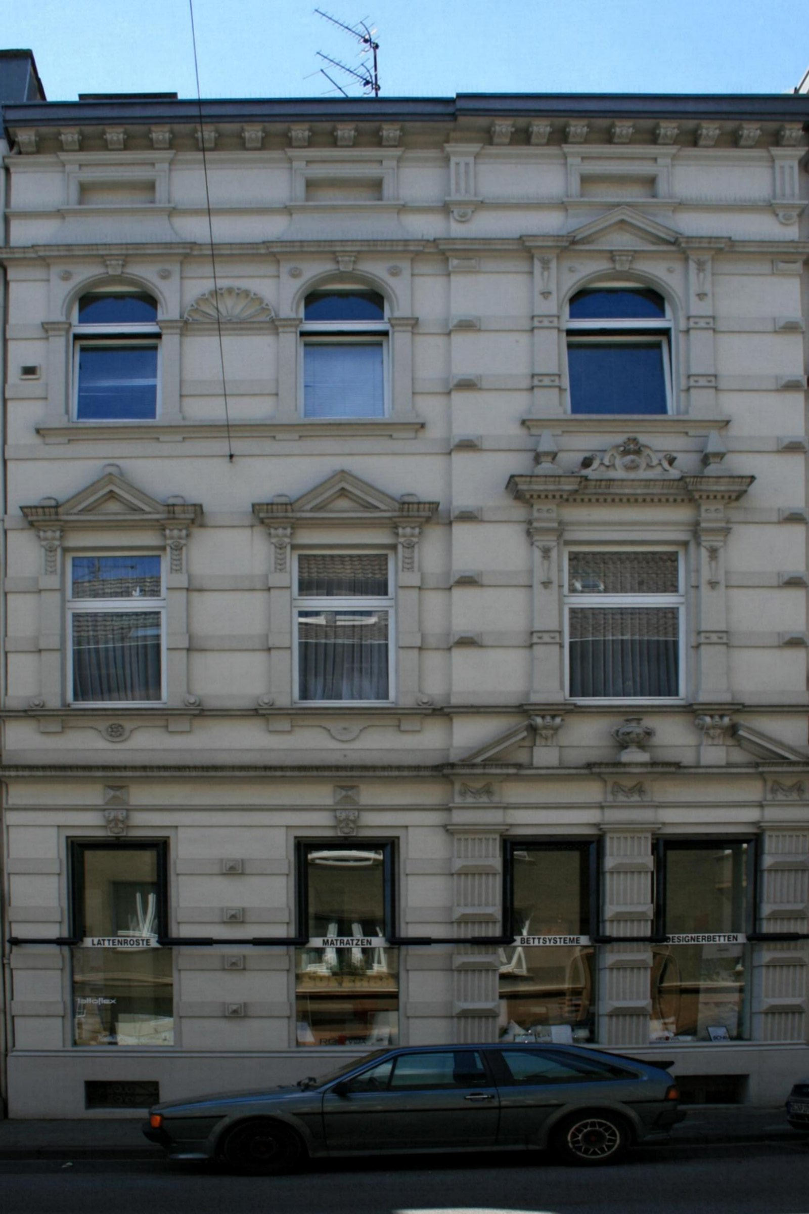 Cultural heritage monument No. Sch 047 in Mönchengladbach